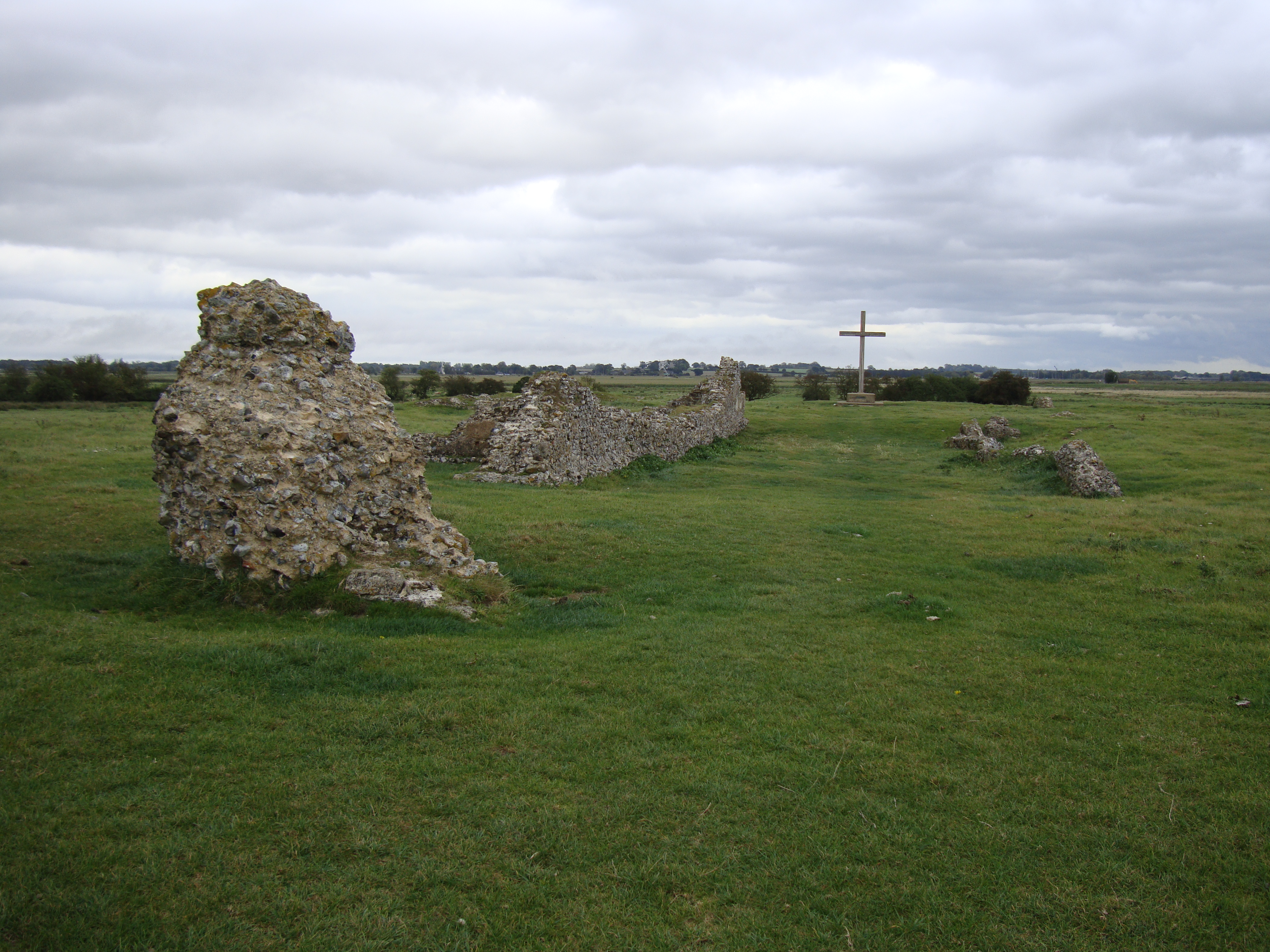 Photograph of the remains of St Benet of Holm Abbey, Norfolk